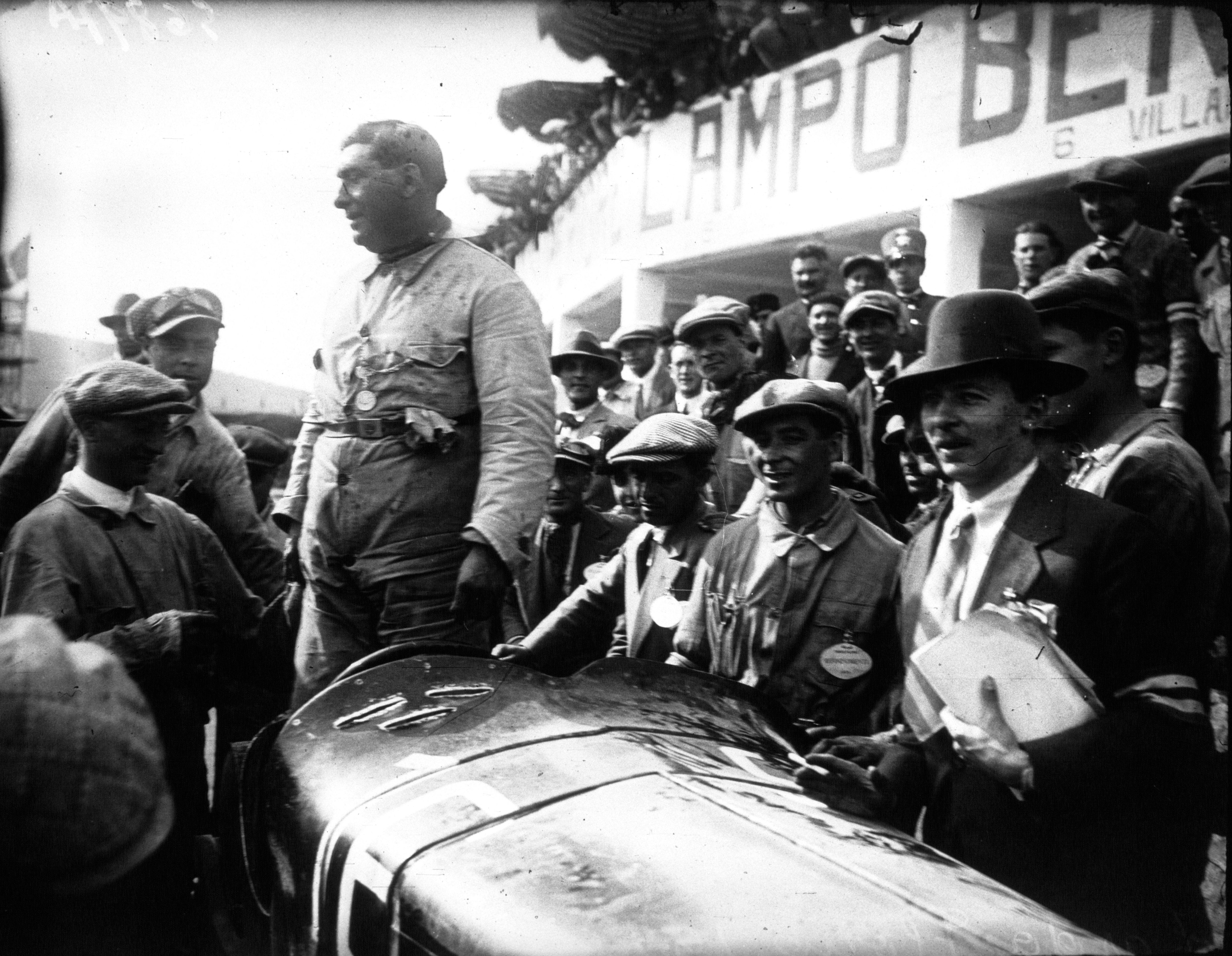 Giuseppe Campari in his Alfa Romeo at the 1928 Targa Florio.